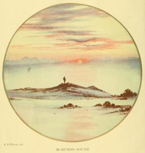 Frontispiece of the first edition of The Worst Journey in the World, vol. 1.